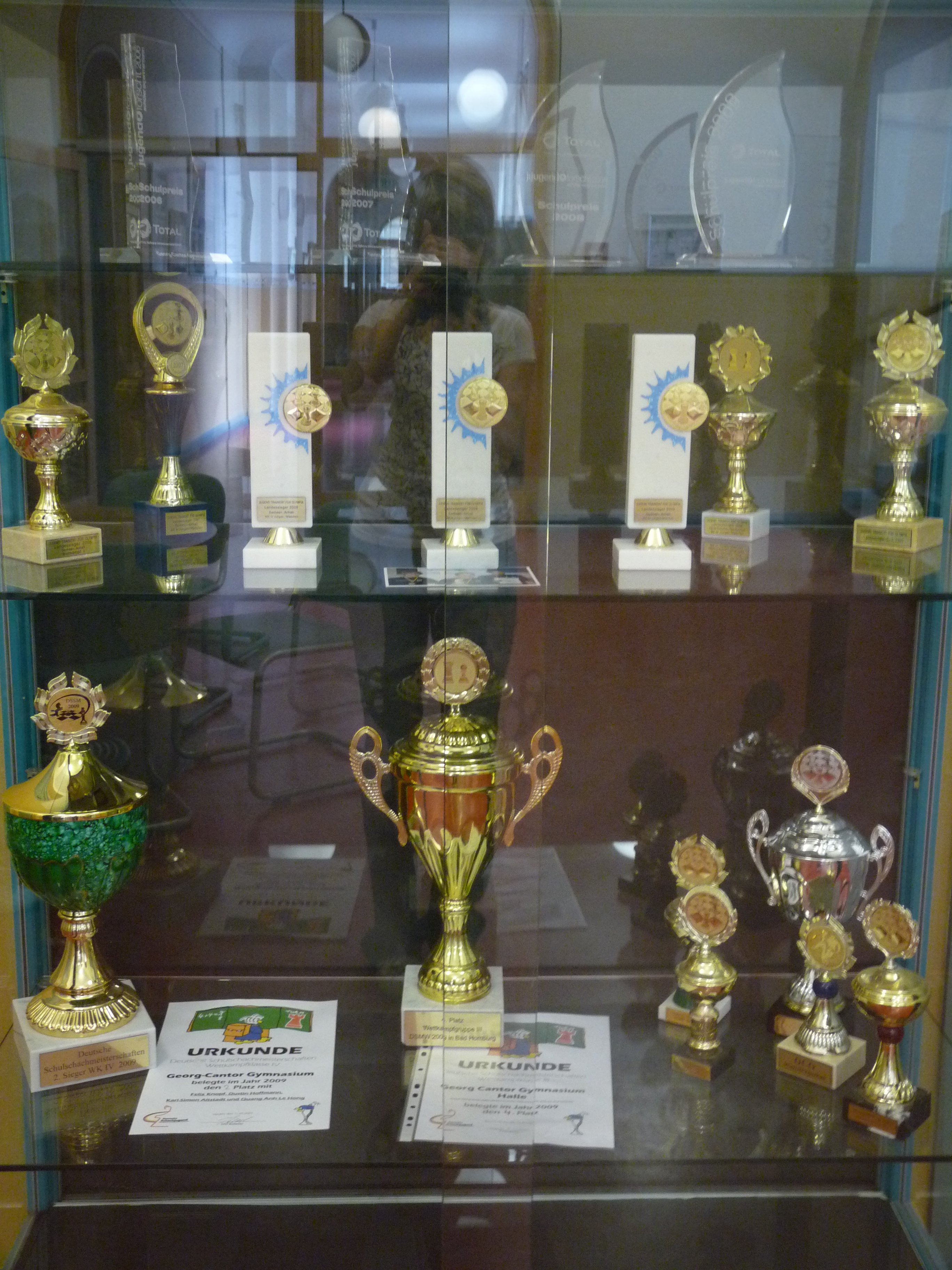 Prizes, cups and awards won by students of the Georg-Cantor-Gymnasium Halle